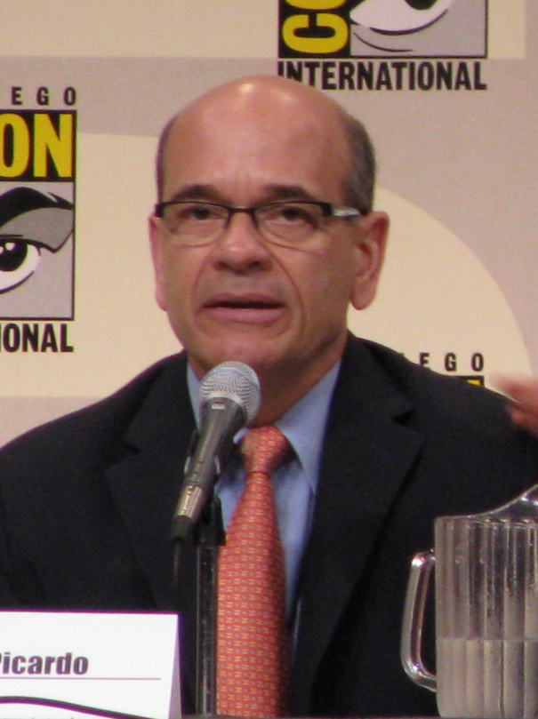 Robert Picardo at Comic Con 2008